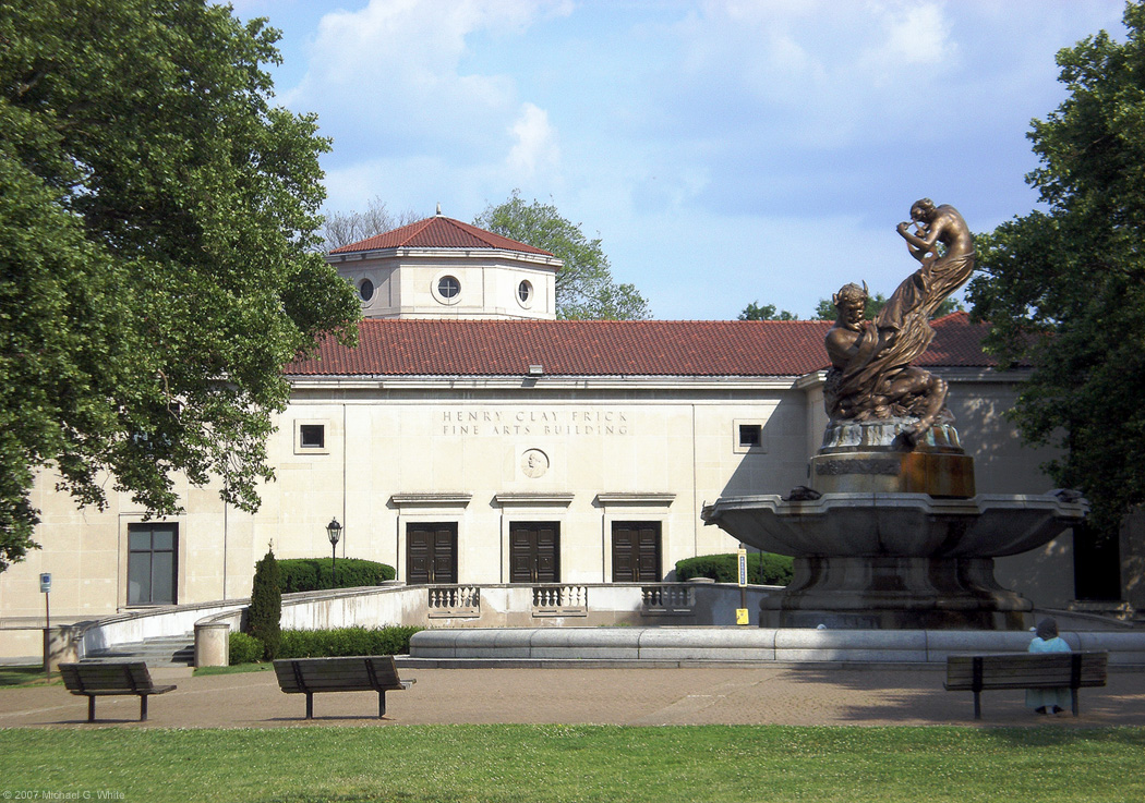 The Frick Fine Arts Building of the University of Pittsburgh. photo by Michael G White